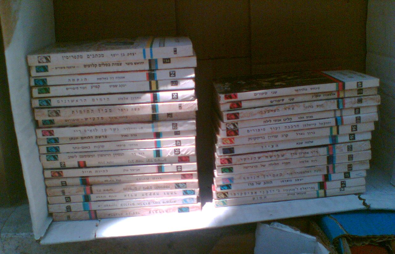 Books of the "Tarmil" series, edited by Israel Har